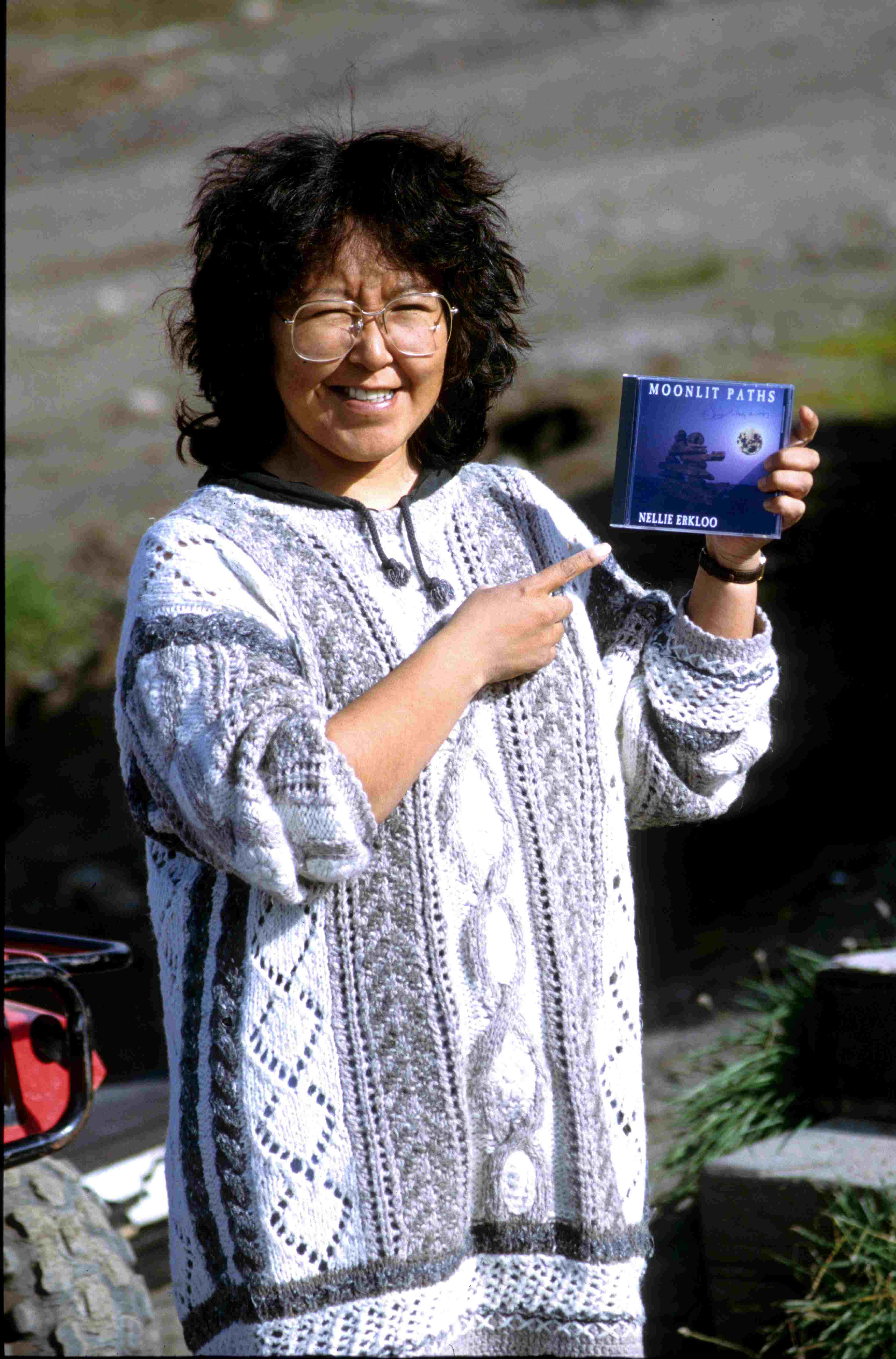 Inuit Singer Nellie Erkloo from Pond Inlet (Nunavut, Canada)